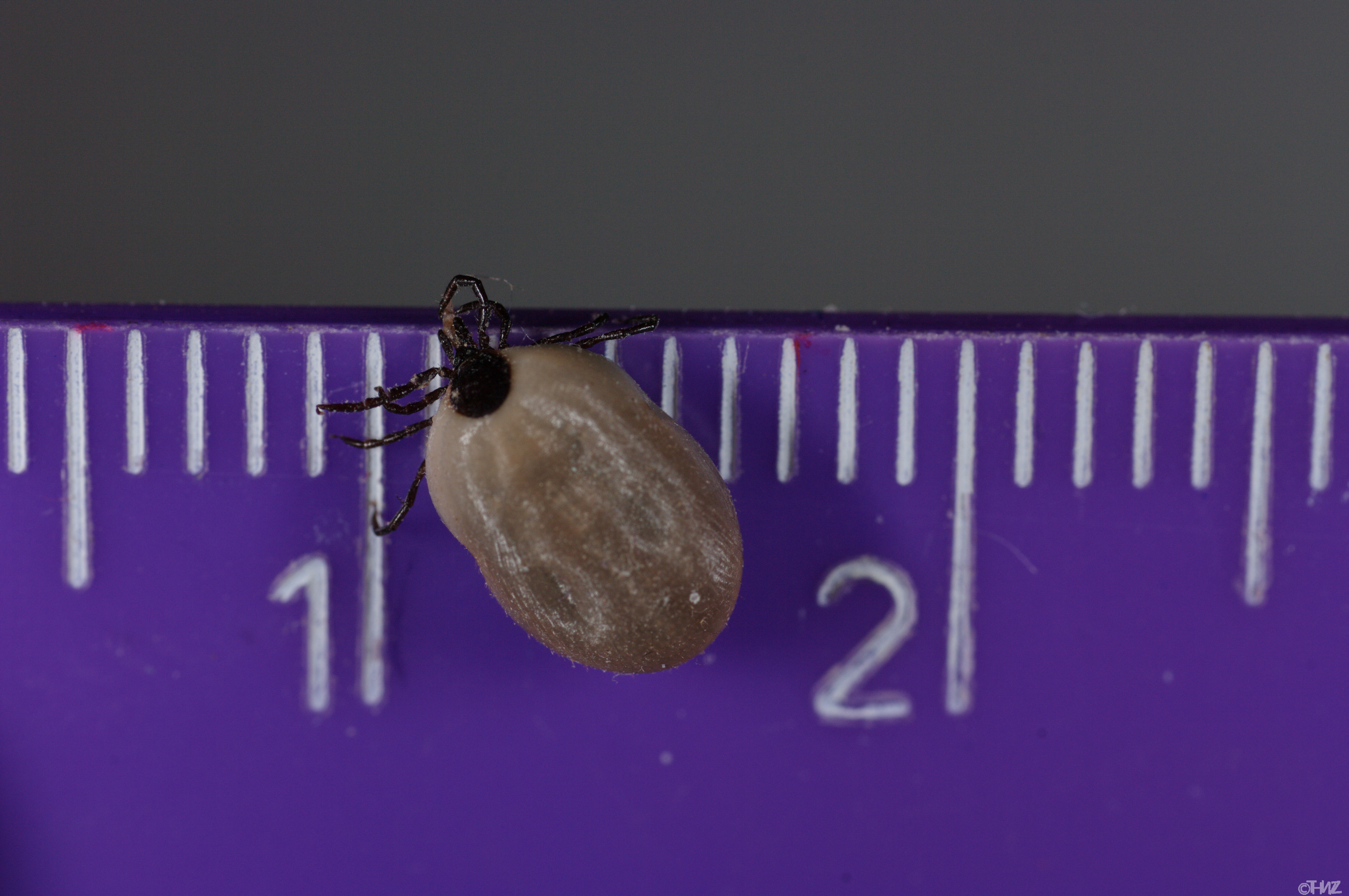 Ixodes ricinus